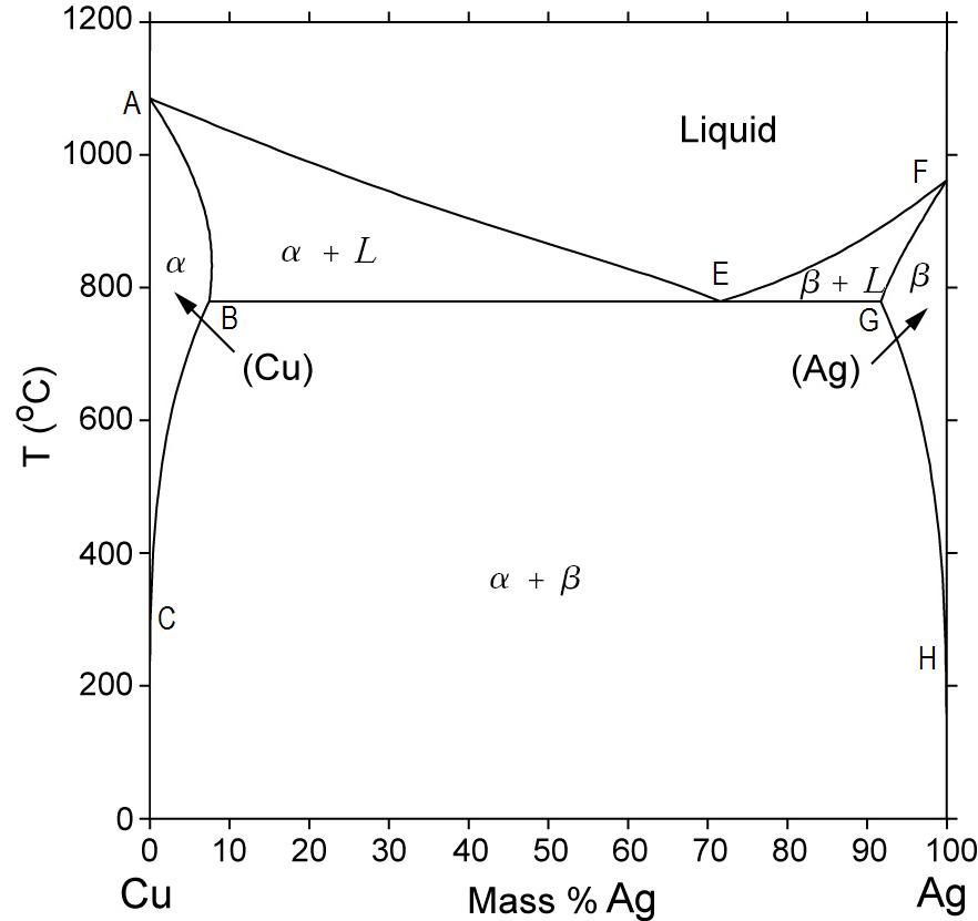 Ag-Cu System Calculated Phase Diagram